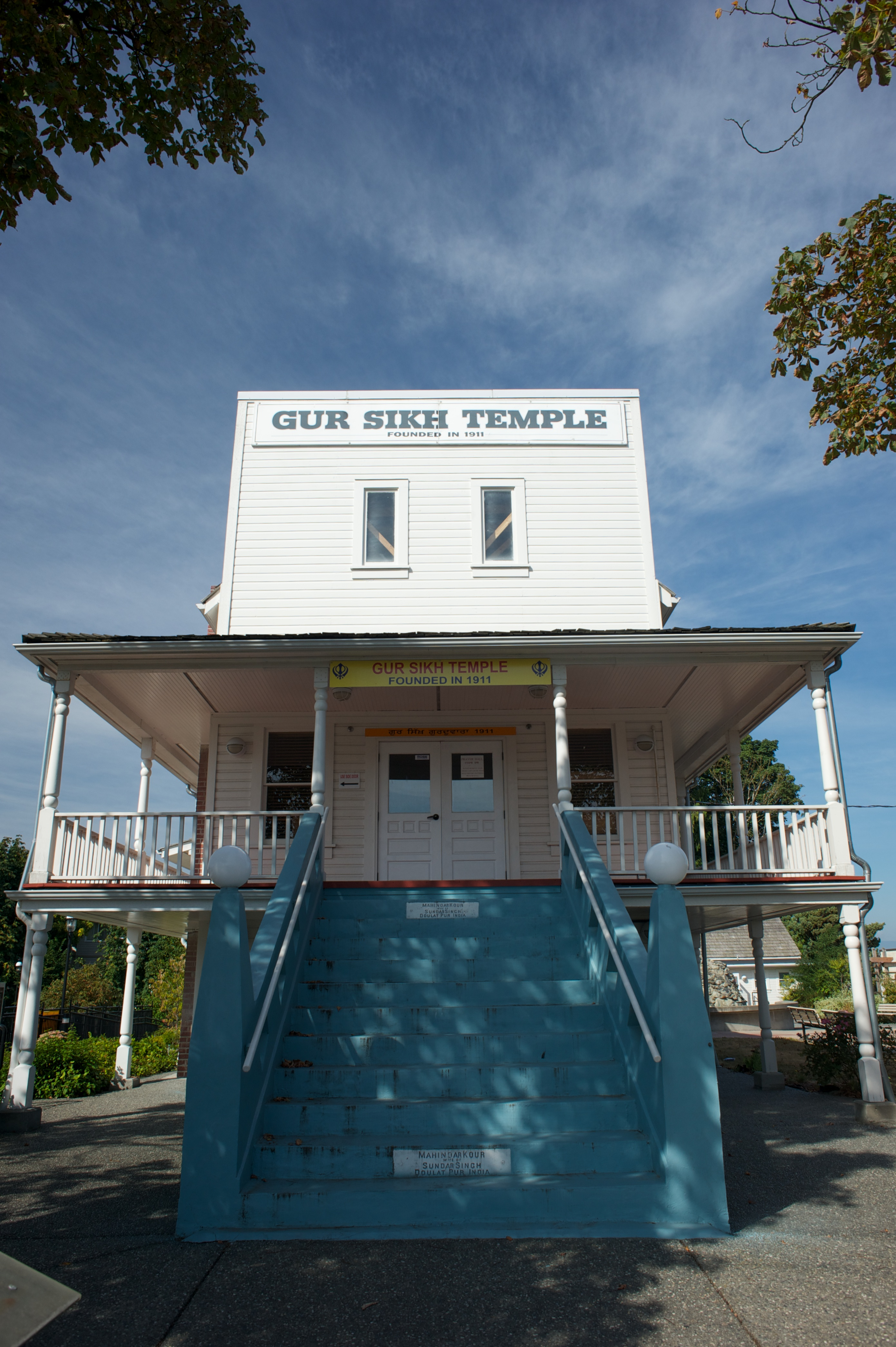 South West exterior elevation of Gur Sikh Temple